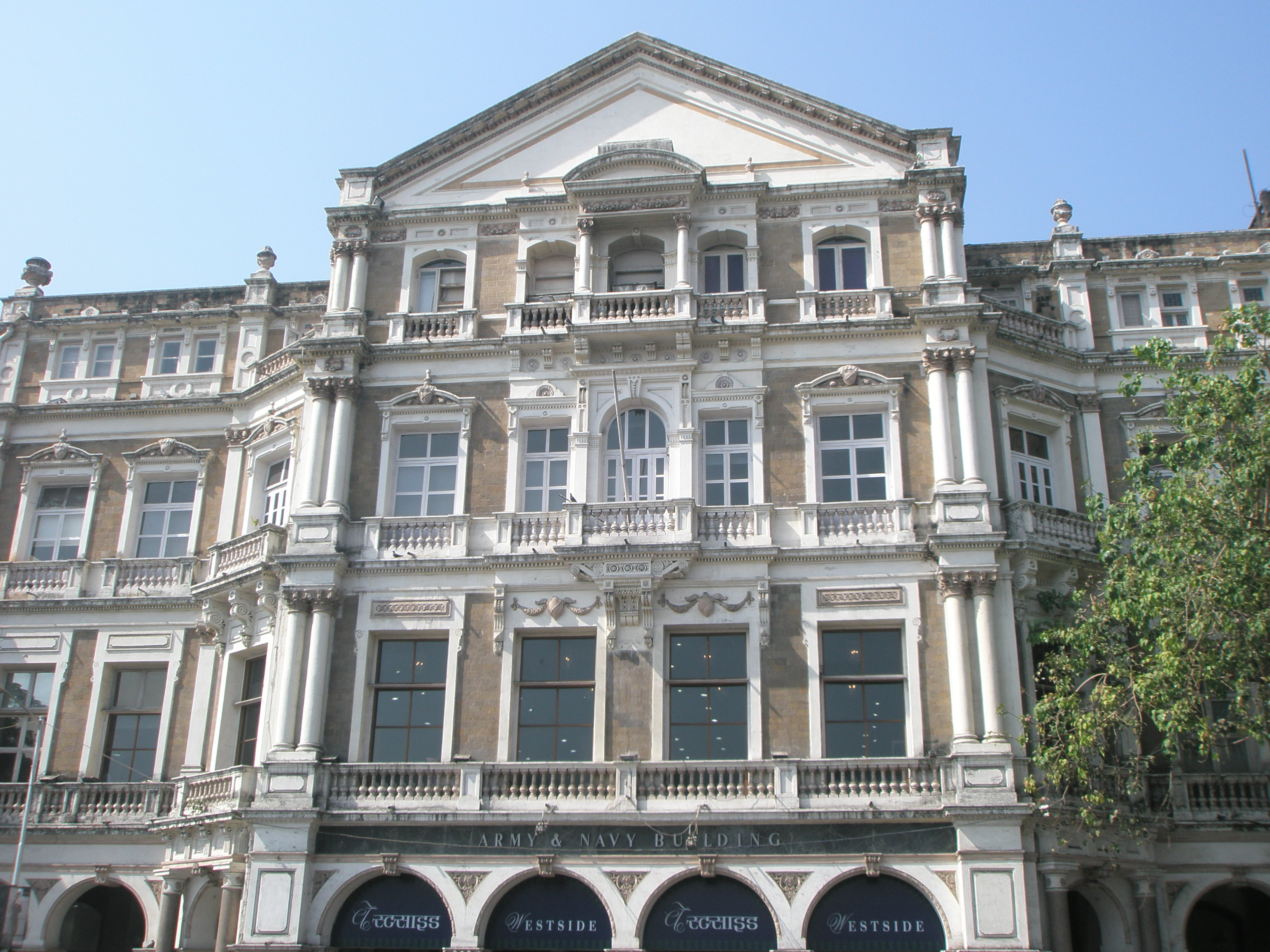 Taken on 12-Jan-2009